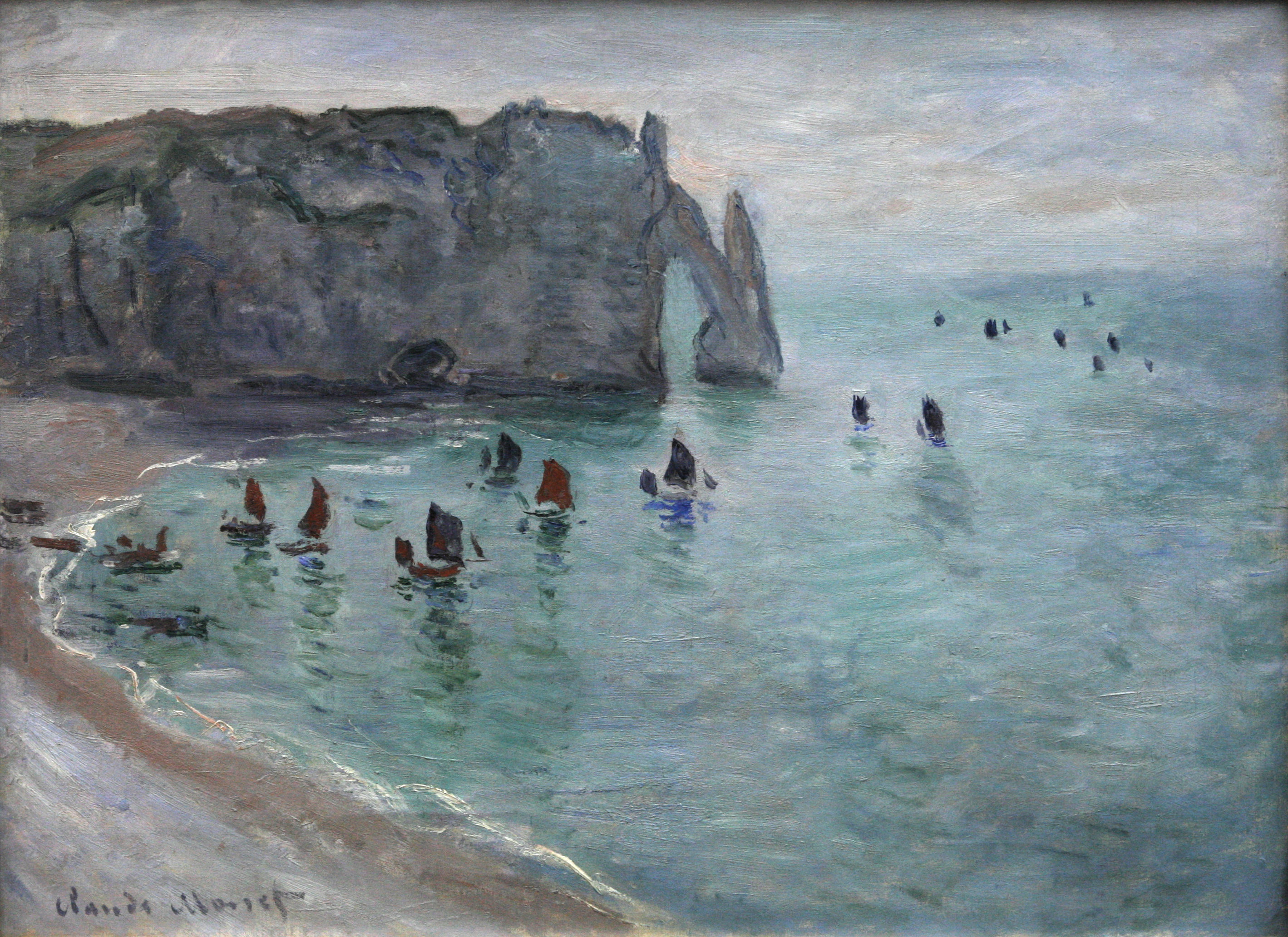 Étretat, la porte d'Aval: bateaux de pêche sortant du port, by Claude Monet Marble, 1819 On display at Dijon fine arts museum